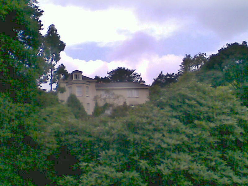 Glendurgan House, Mawnan Smith, Cornwall, the home of members of the Fox family, set in fine gardens developed by Alfred Fox and now the property of the National Trust. The house is not open to the public.